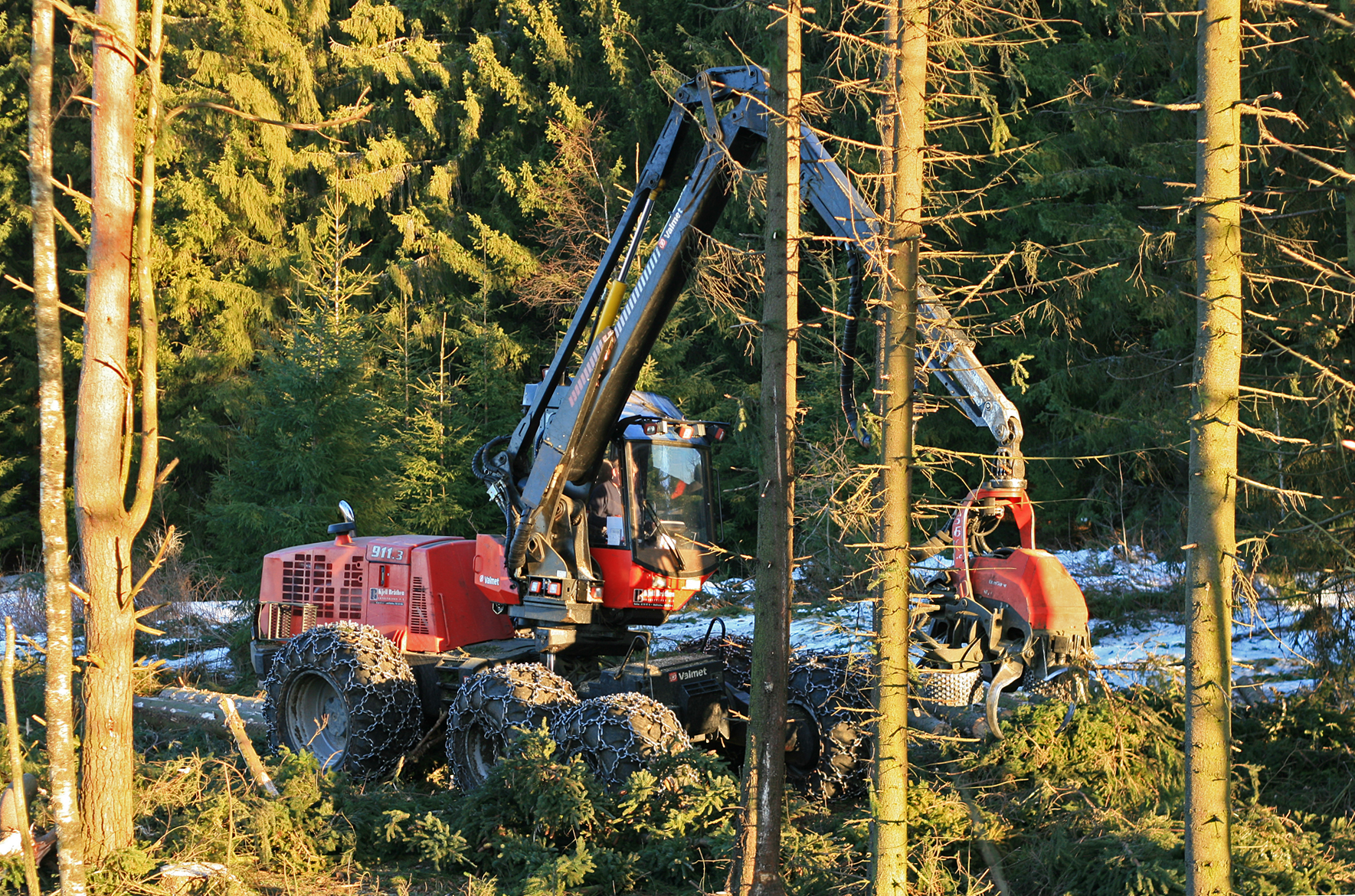 PORSCHE Carrera 911GT3 forestry machine (harvester) in action. Hedmark, Norway.